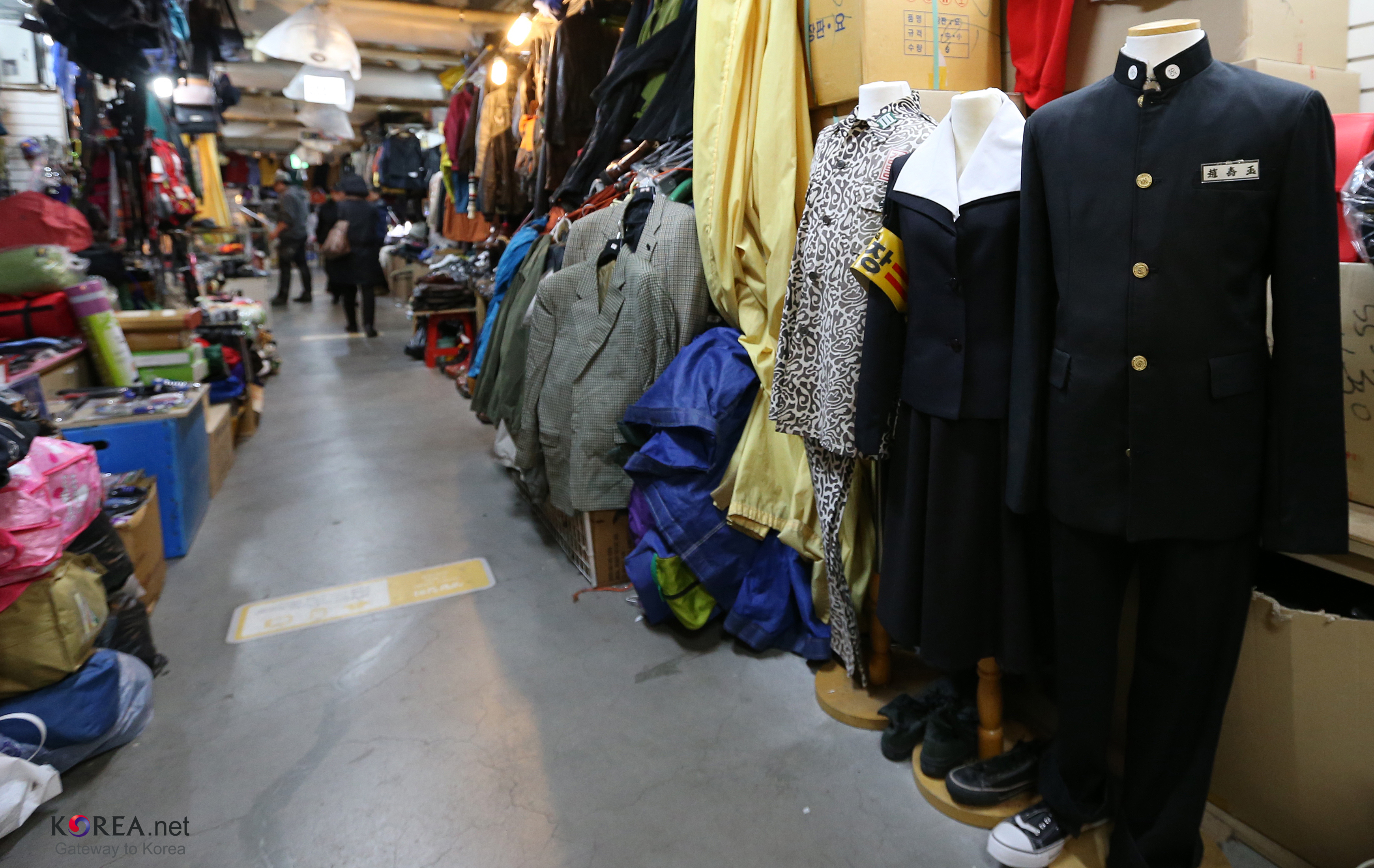 Seoul Folk Flea Market Hwanghak-dong, Jung-gu, Seoul 2013.04.09. ( an Article about Seoul Folk Flea Market) A journey back in time at Seoul Folk Flea Market Ministry of Culture, Sports and Tourism Korean Culture and Information Service Newsroom Jeon Han 서울풍물시장 스케치 황학동, 중구 문화체육관광부 해외문화홍보원 코리아넷 전한